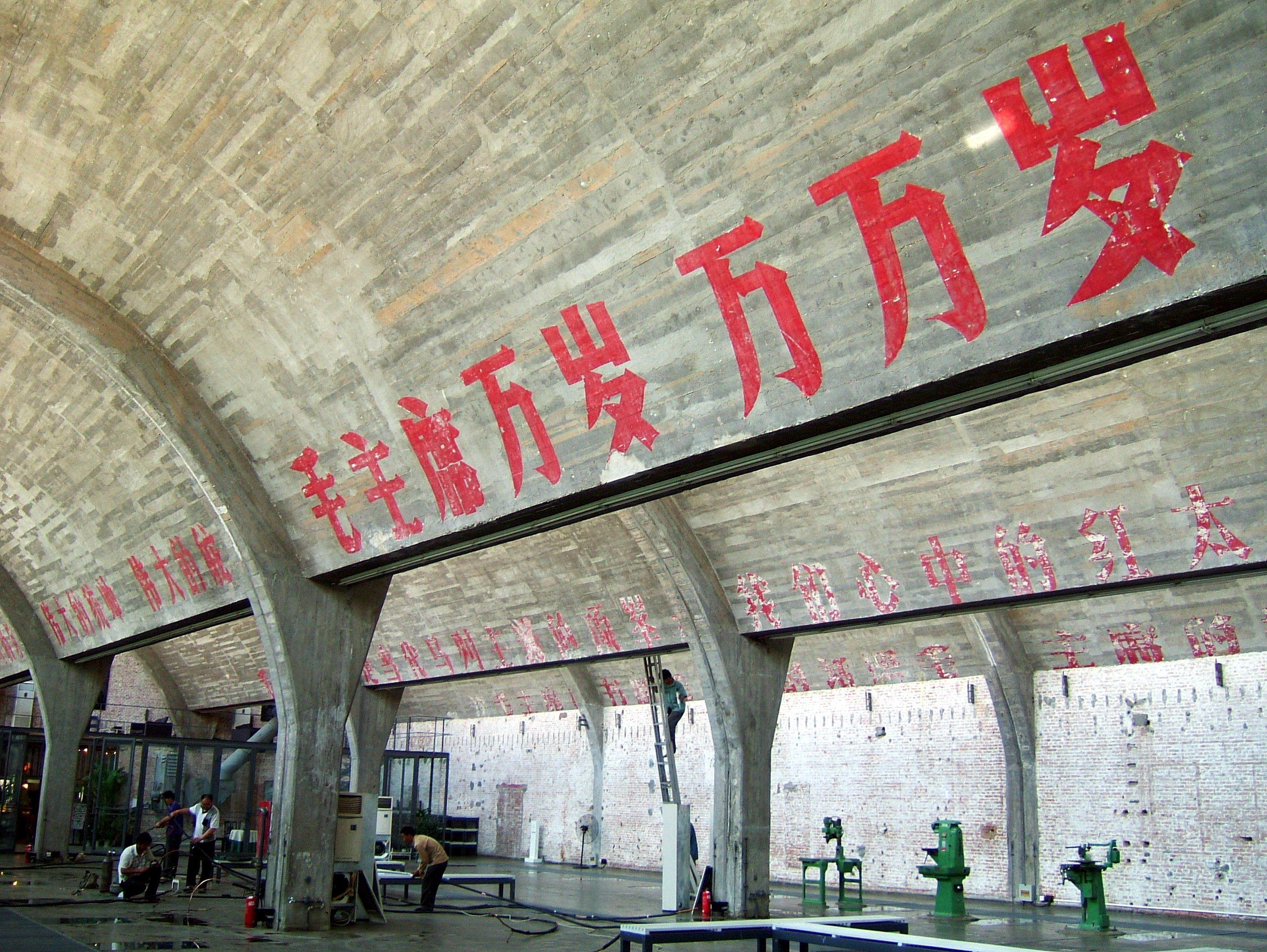 This is an old factory still baring the old propaganda messages painted high above where the workers would spend their hours.The message nearest the camera wishes long life to Chairman Mao. It is now being converted into an art studio.Beijing, China